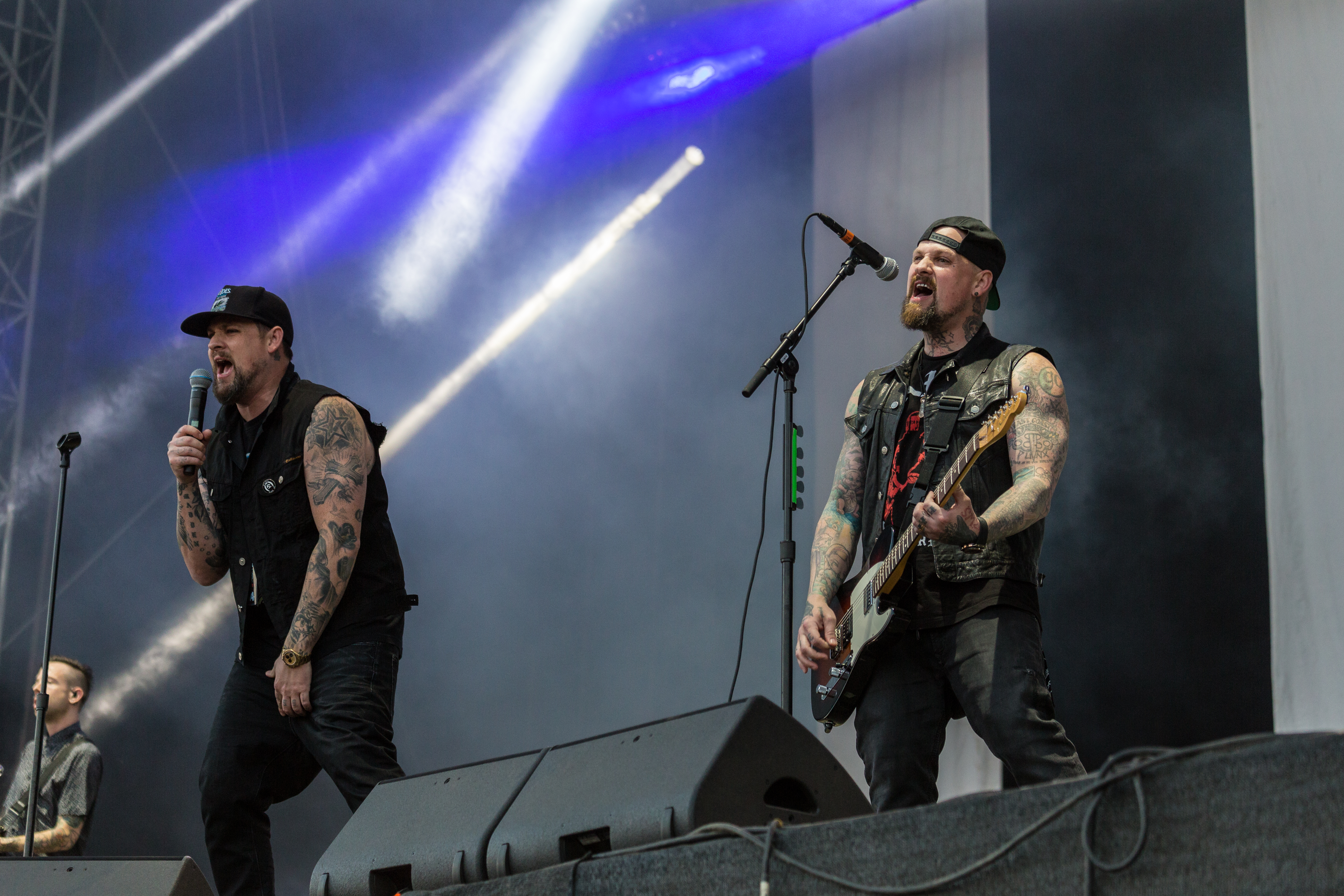 Nova Rock 2017 Joel Madden and Benji Madden from Good Charlotte at the Nova Rock 2017